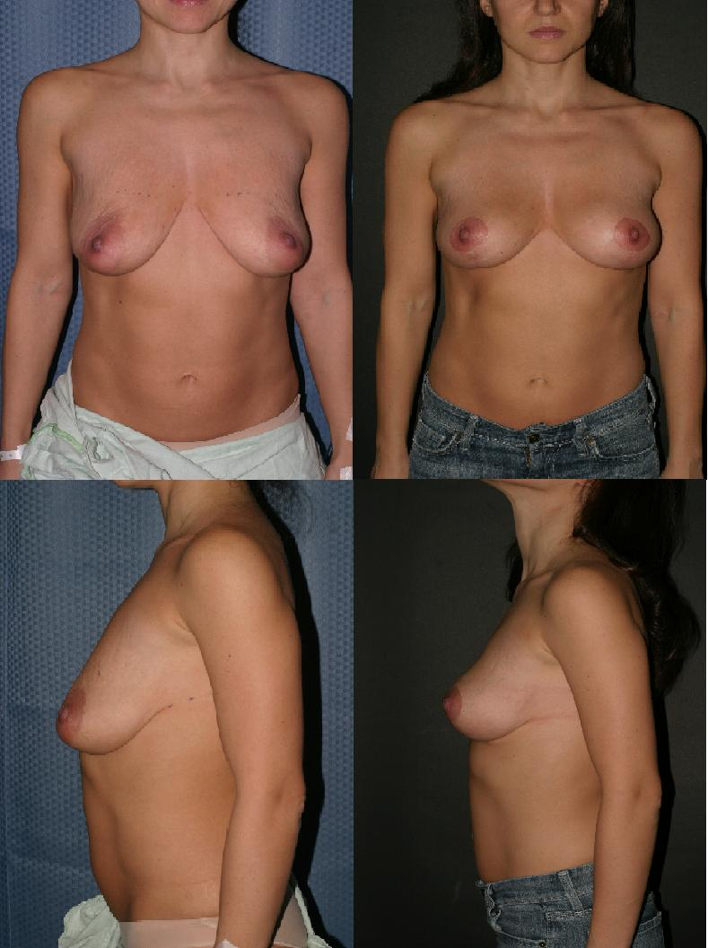 Bilateral vertical mastopexy without implants